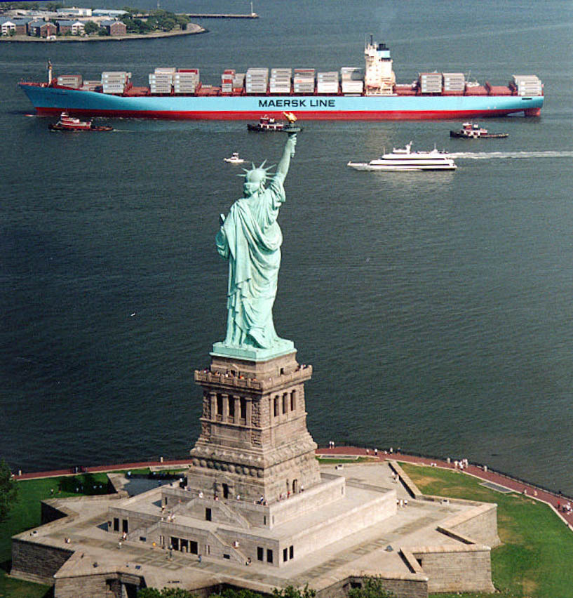 Briefing on NY/NJ Harbor Estuary Deepening Projects and Opportunities for Consolidation of Deepening Activities, US Army Corps of Engineers, New York District, 2002. 50’ Harbor Deepening Congressional Briefing, page 16. Cropped and rotated by myself, GDFL. Surely the Regina Maersk on her celebrated first port call, July 1998 (cited by 3 Senators). Maersk Series K, 5th generation container vessel, 14.5m draft fully loaded. Very lightly loaded, note how much of the rudder shows. This was a photo-op since there are no container facilities above Liberty Island. IMO Number: 9085522 Length: 318 m Beam: 42 m